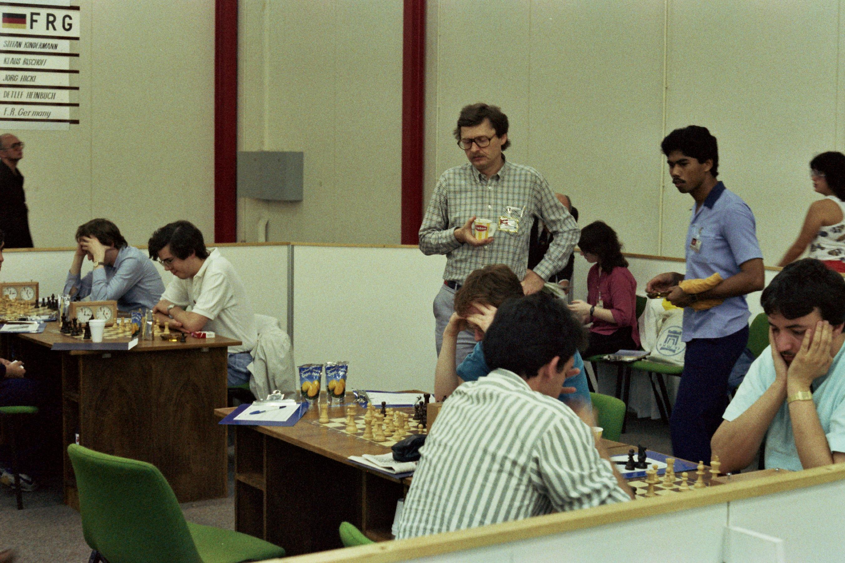 Chess Olympiad 1986 (Stefan Kindermann, Klaus Bischoff, Jörg Hickl, Detlef Heinbuch, Hans-Joachim Hecht standing), Photographer Gerhard Hund.